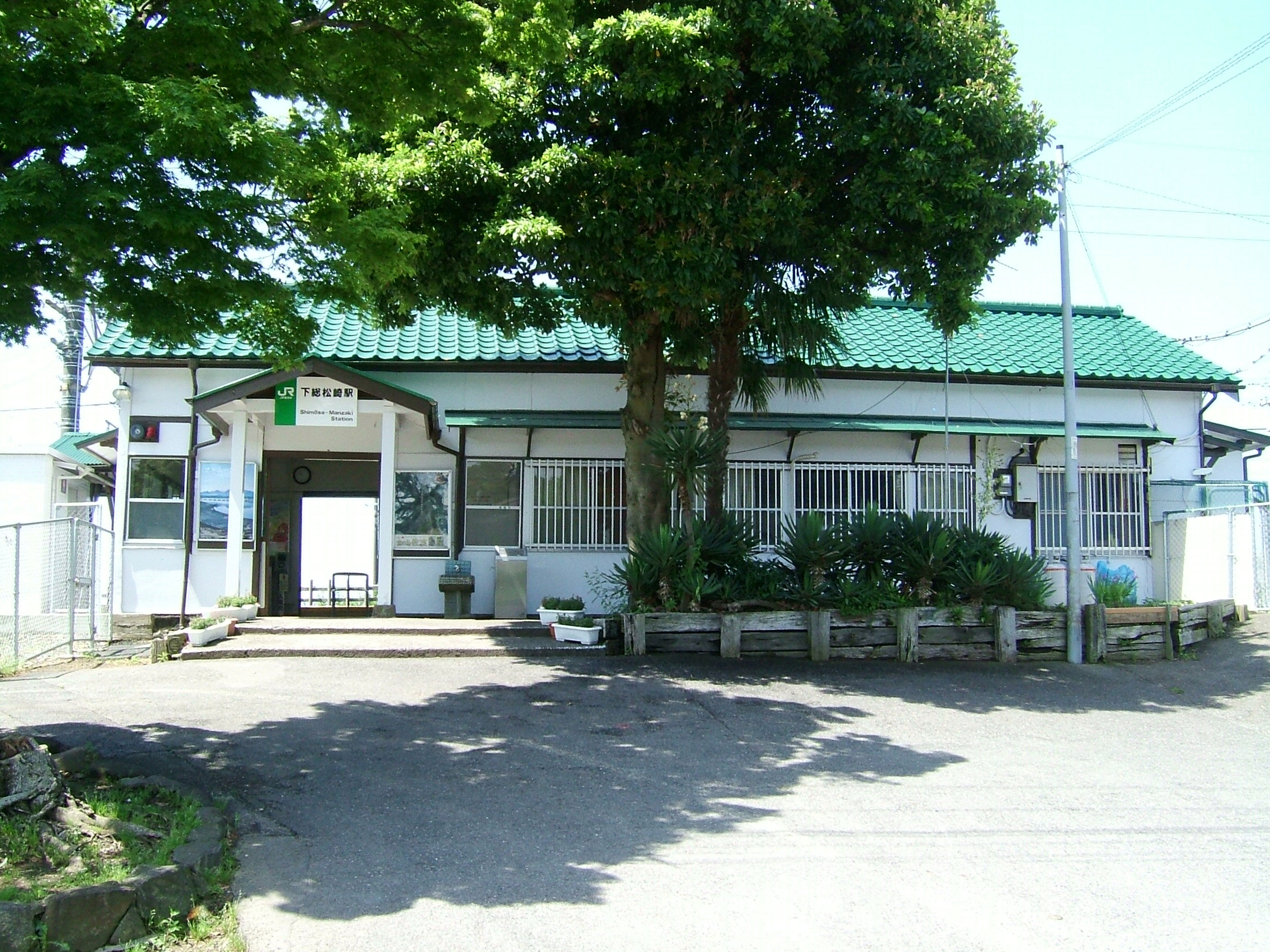 Shimousa-Manzaki Station building (East Japan Railway Narita Line)